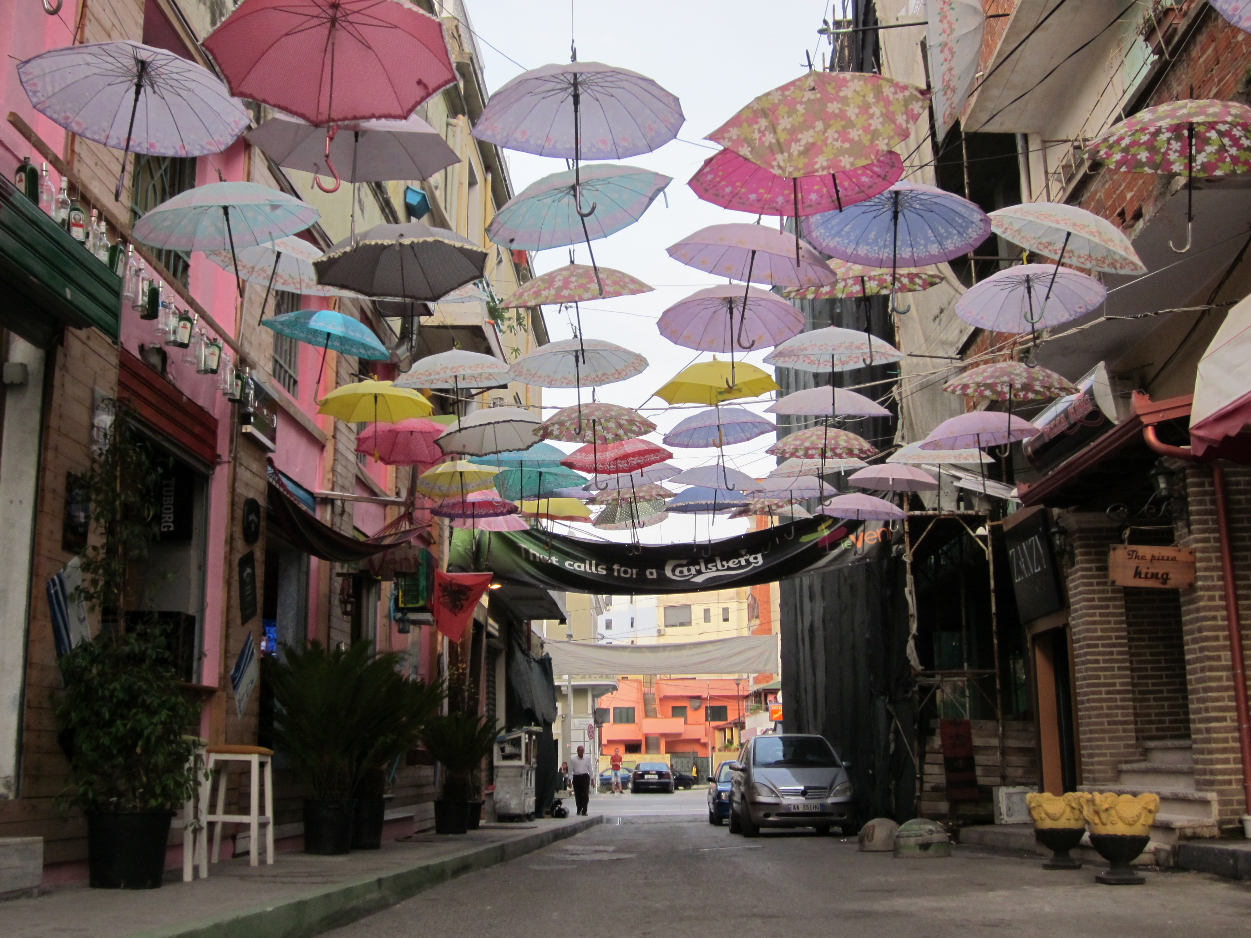 Passing by a street in the Albanian city of Durrës. It simply looked nice, so I took a picture of it. Maybe someone can use it somewhere.